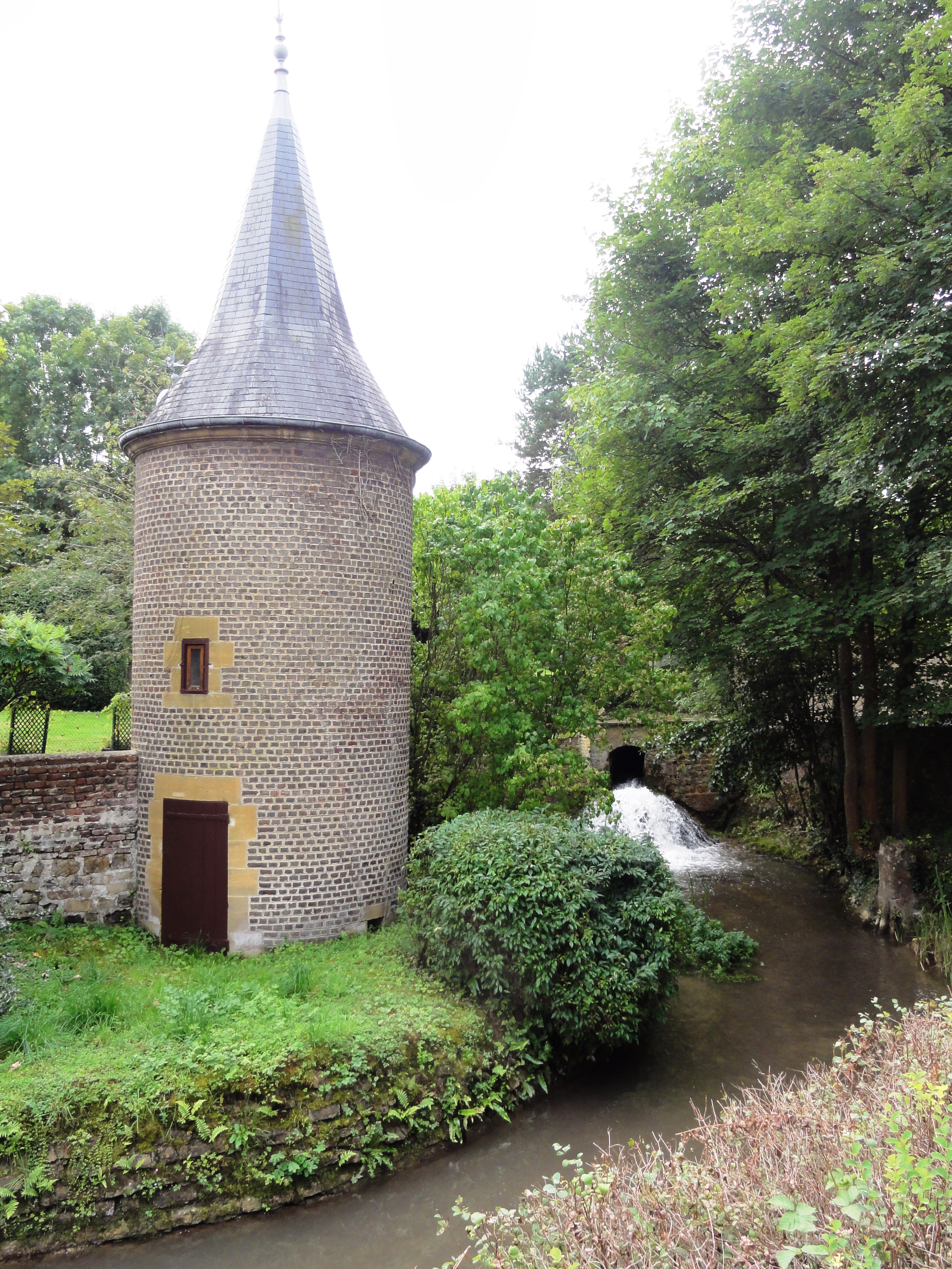 Prix-lès-Mézières (Ardennes) pigeonnier du moulin à couleurs